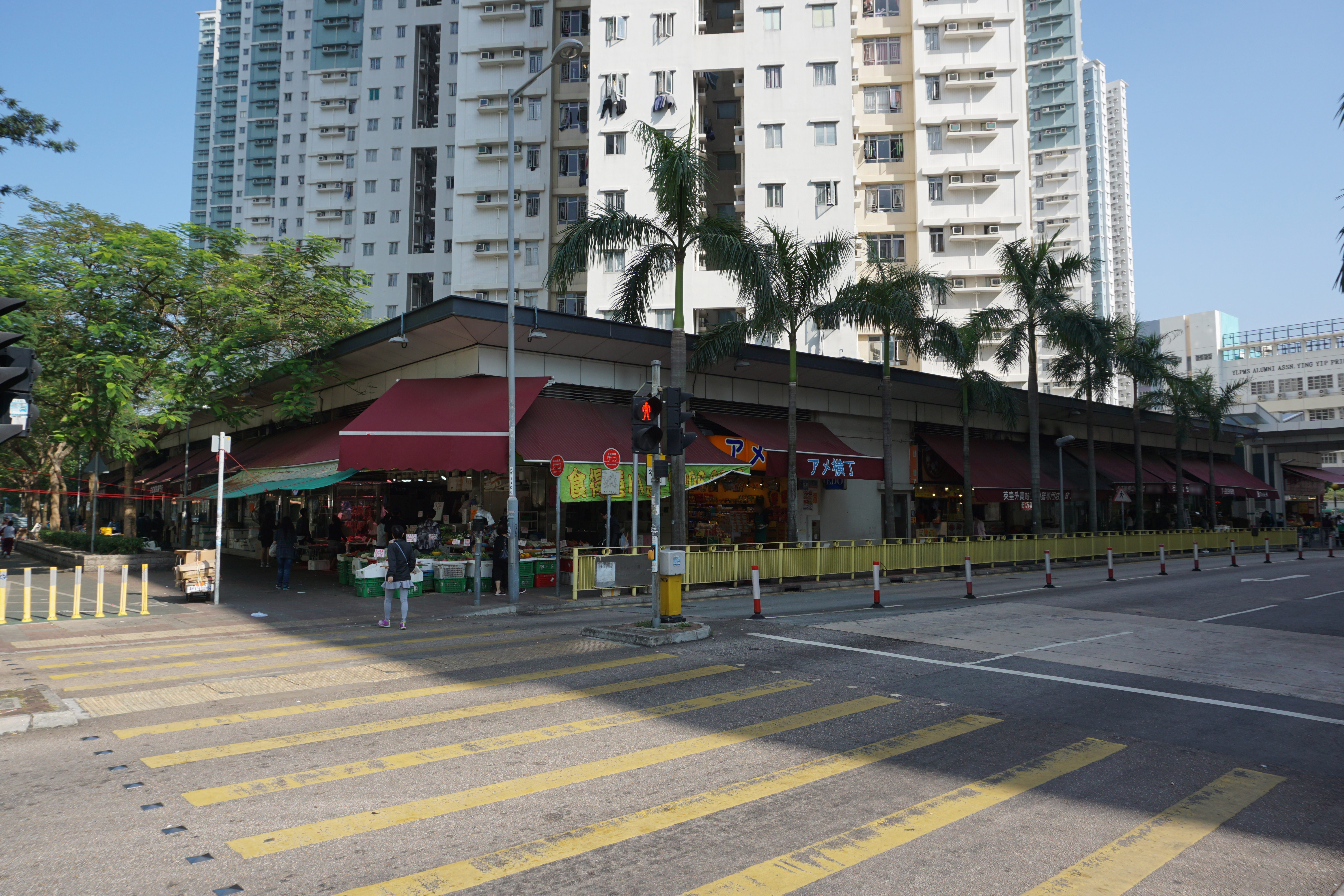 Grandeur Terrace in Tin Shui Wai, Hong Kong.